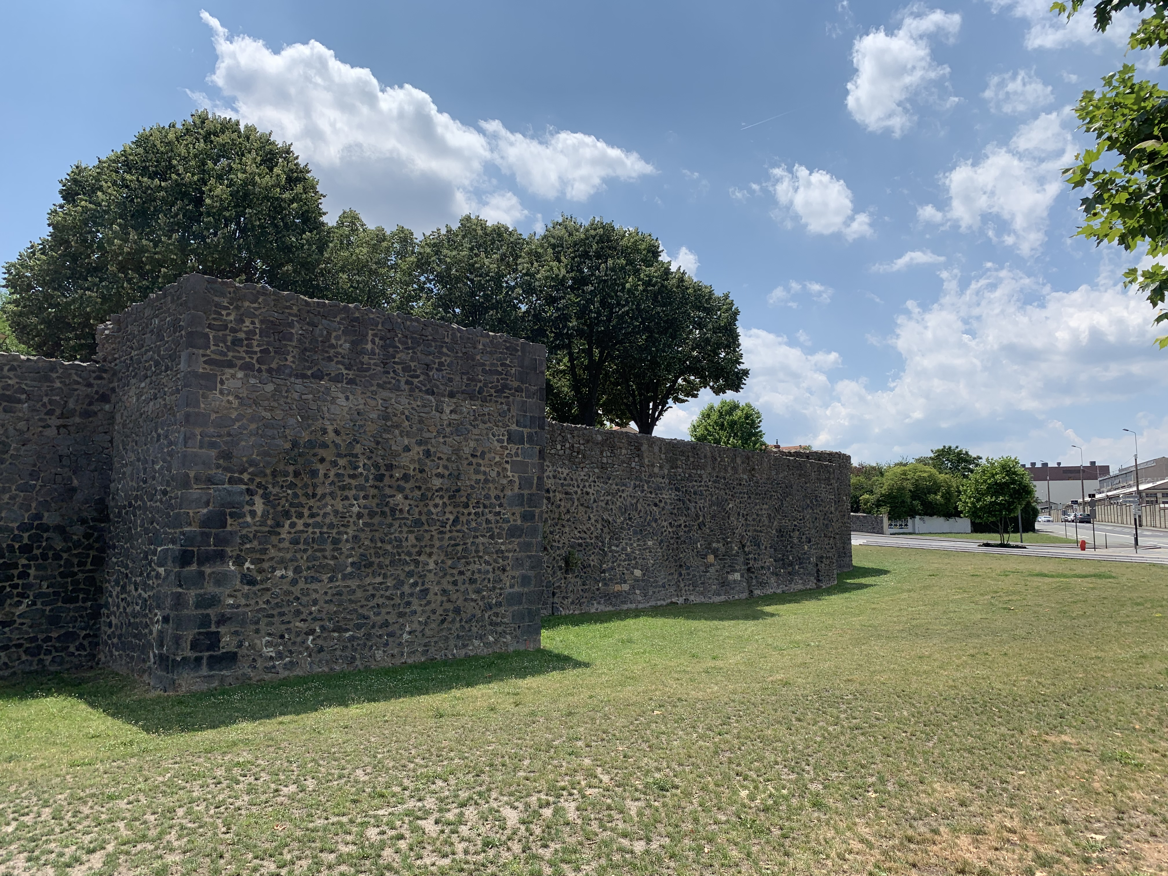 Old City Quarter, Clermont-Ferrand, France